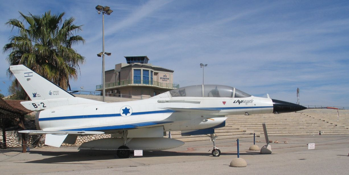 Other versions